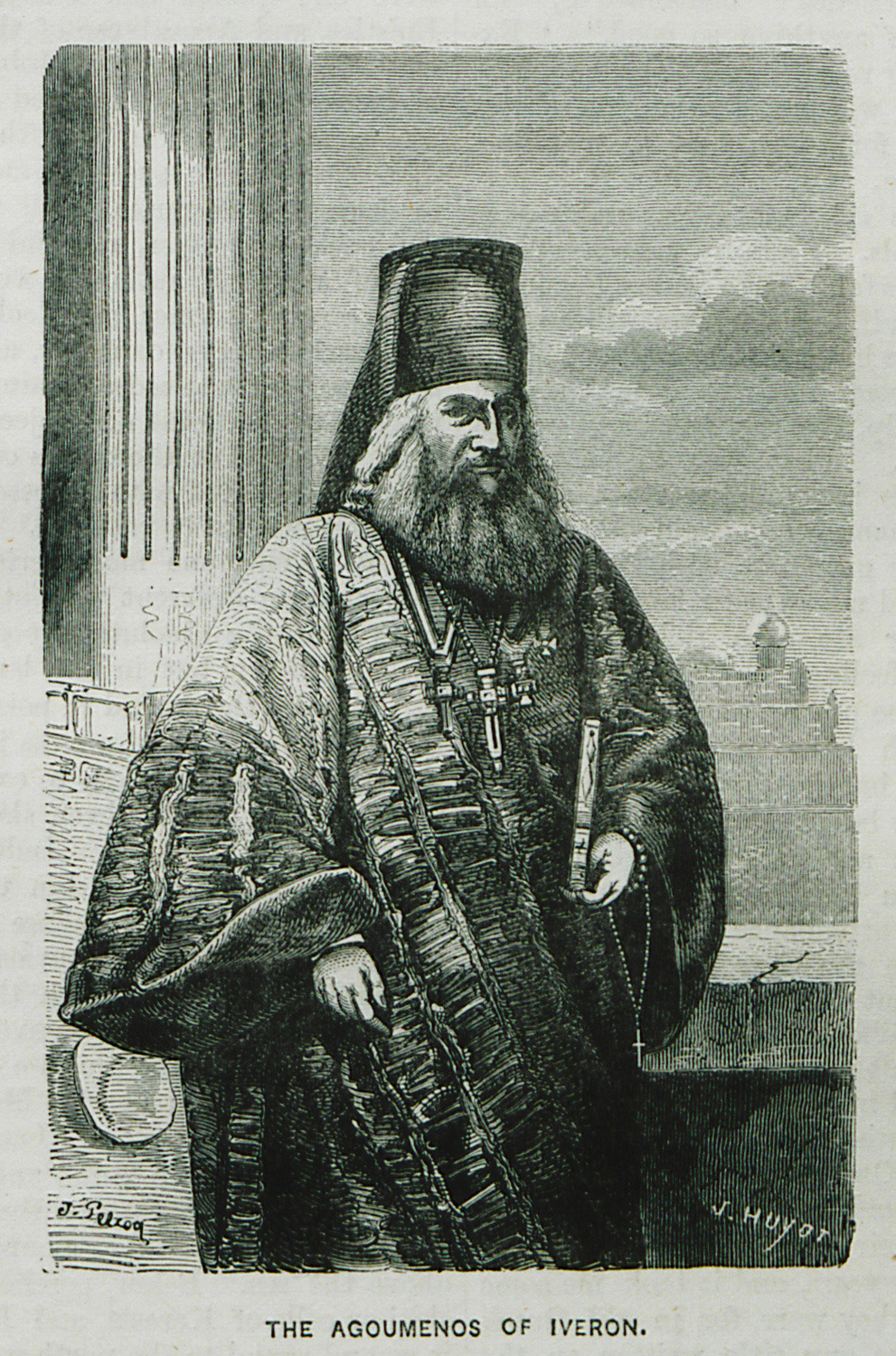 Abbot of Iviron monastery